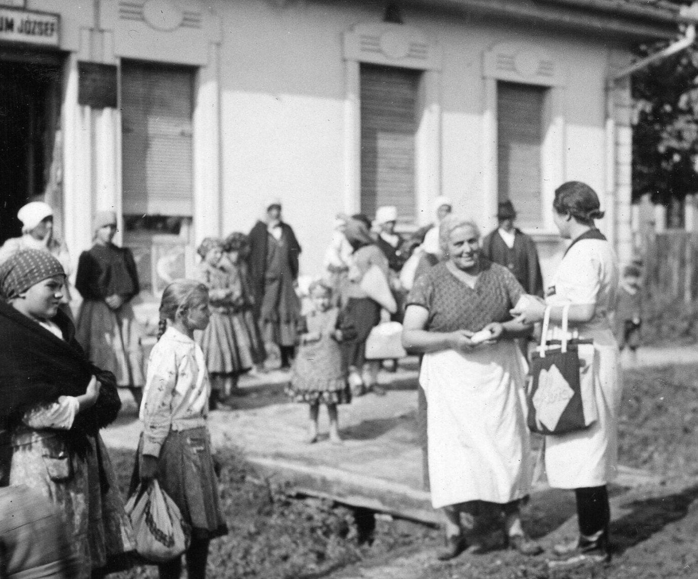 A festivity (?) in front of the Grünbaum grocery shop, Berzence, Hungary